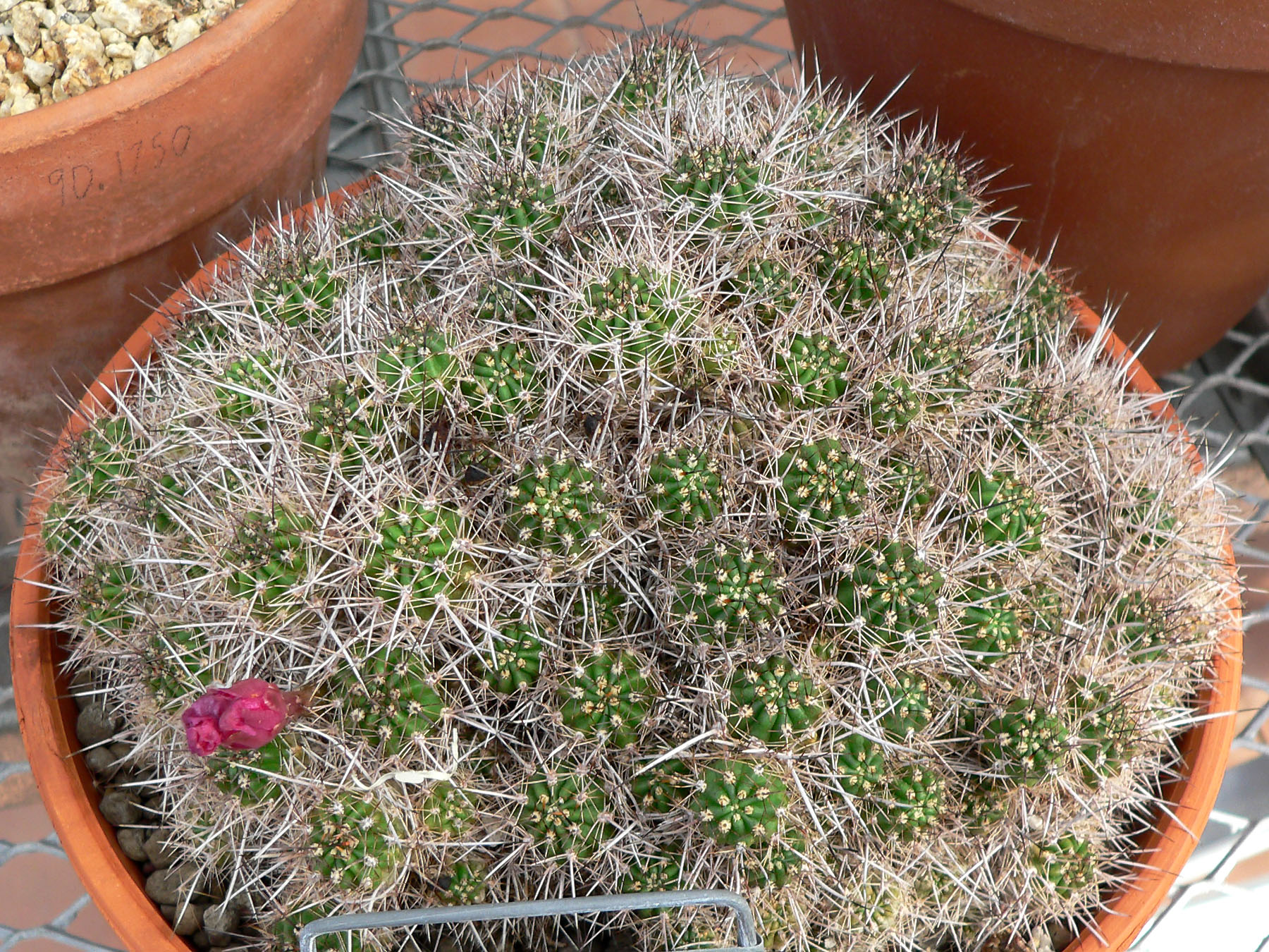 Echinopsis yuquina at the University of California Botanical Garden, Berkeley, California